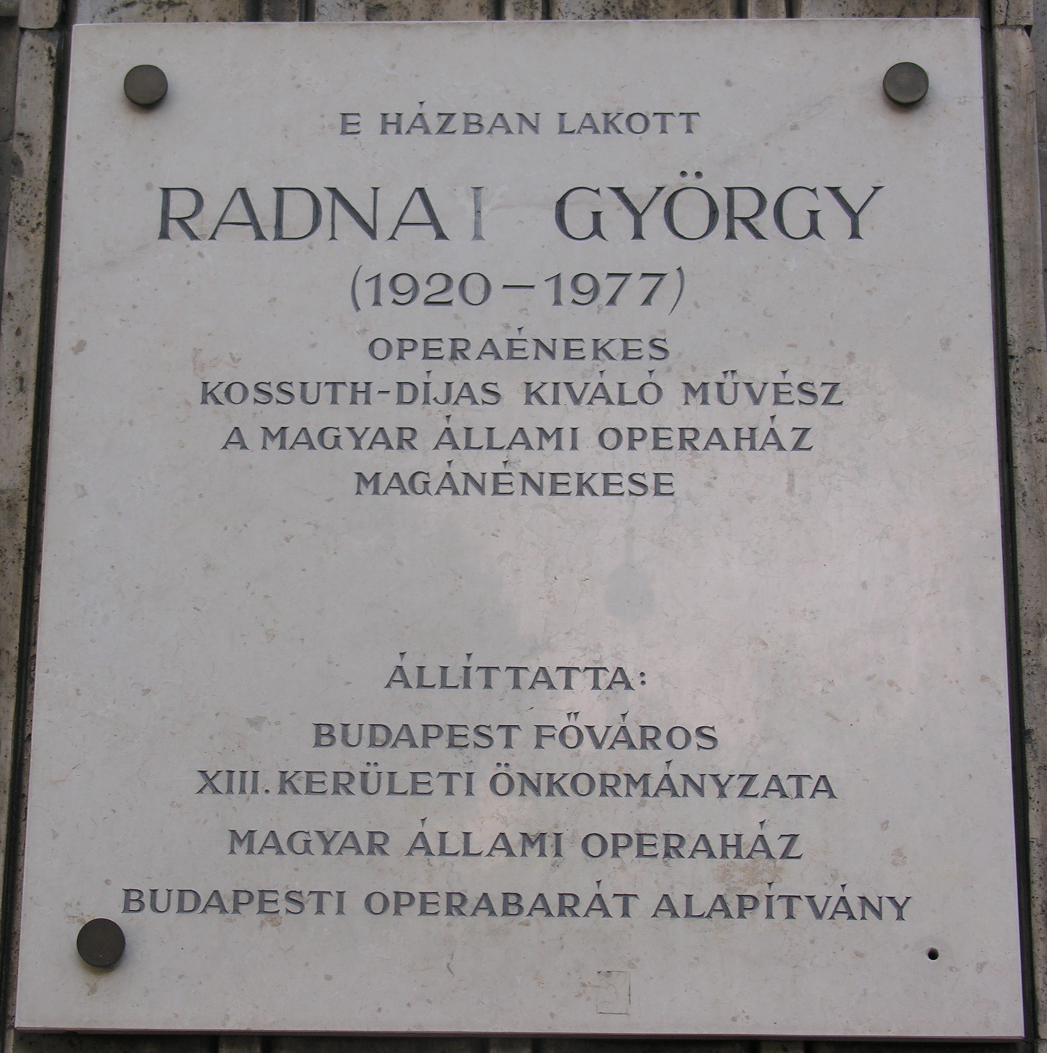 Commemorative plaque of the opera vocalist György Radnai in Budapest District XIII, Jászai Mari Square No 4/a